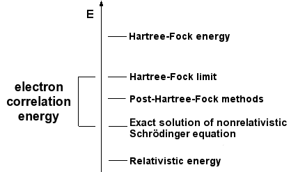 Diagram illustrating electron correlation energy in terms of various levels of theory. Image created by Karol Langner using GIMP (2005), and released into the public domain. New, corrected version uploaded by Karol Langner, 07:09, 7 April 2006 (UTC).